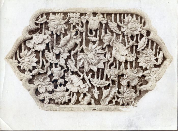 Relief at the Mantingan mosque